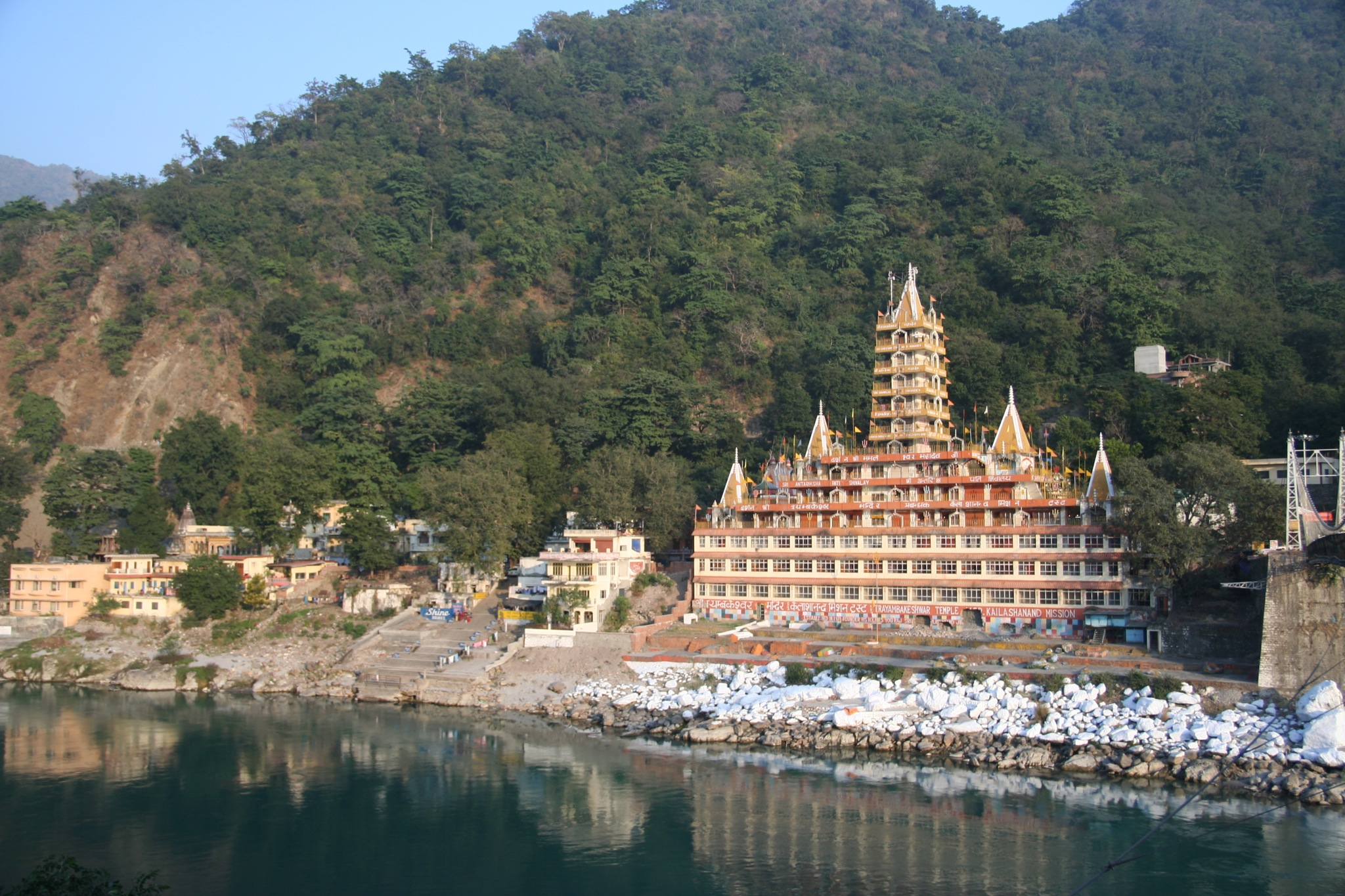 A temple on the east banks of Ganges, near Lakshman Jhula bridge, Rishikesh.